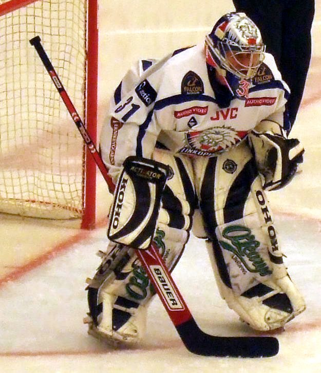 Ice hockey goaltender Rastislav Staňa of Linköpings HC prepared for faceoff in E.ON Arena, Timrå, Sweden